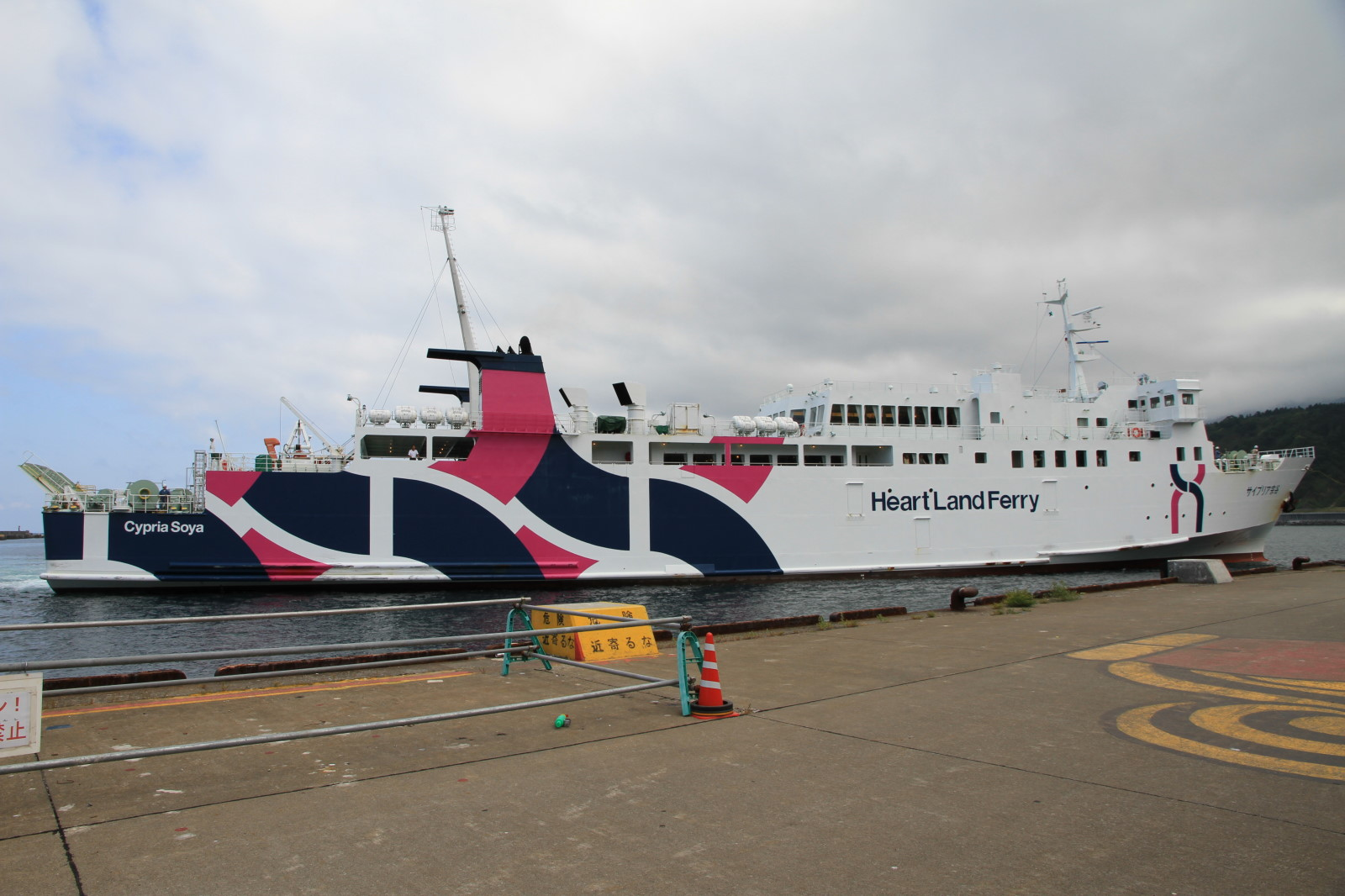 Cypria Soya in Oshidomari port. Rishirifuji town Hokkaido Japan